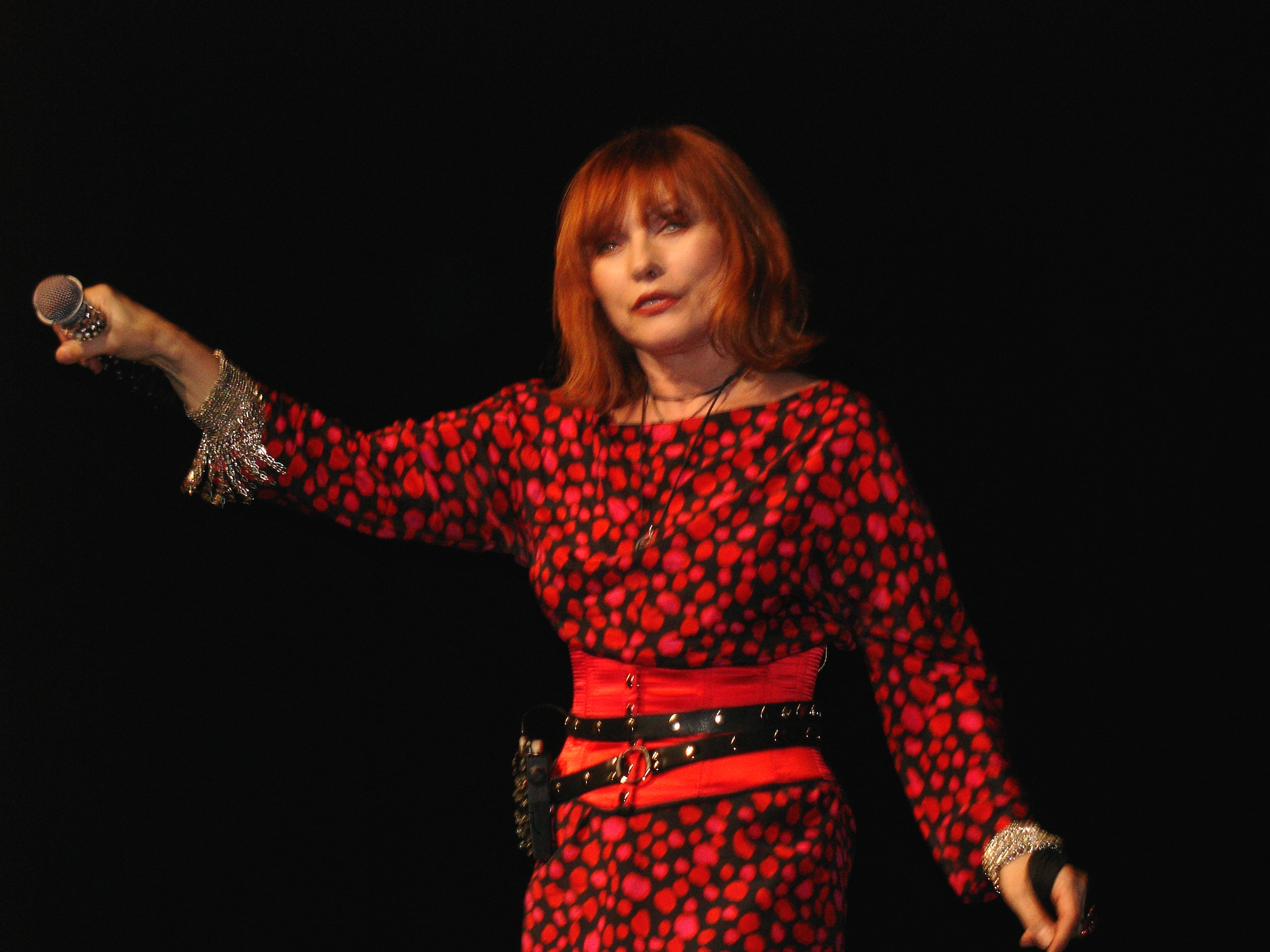 Debbie Harry in concert (dec. 2005). Own work